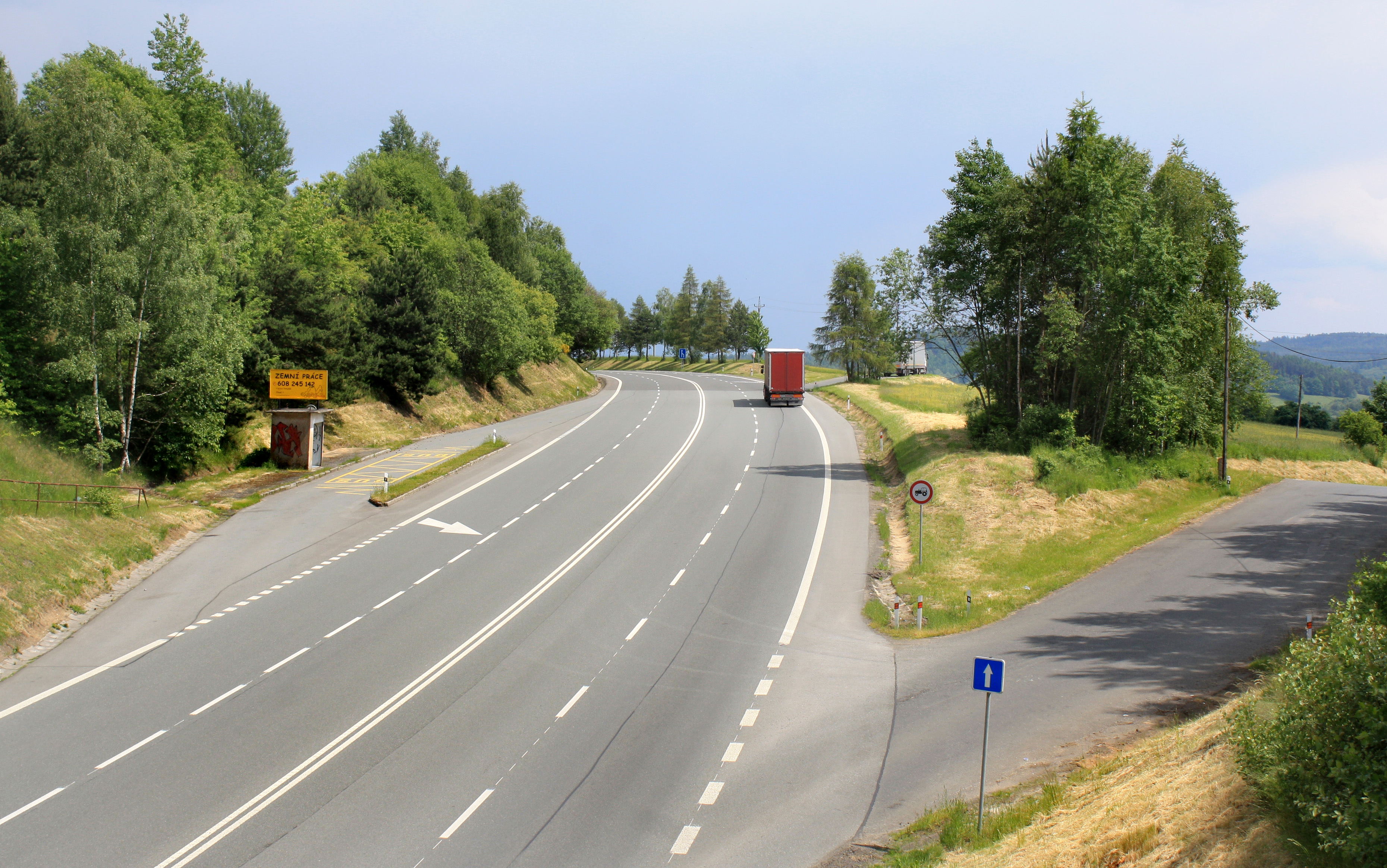 Road No. 22 by Číhaň, Czech Republic